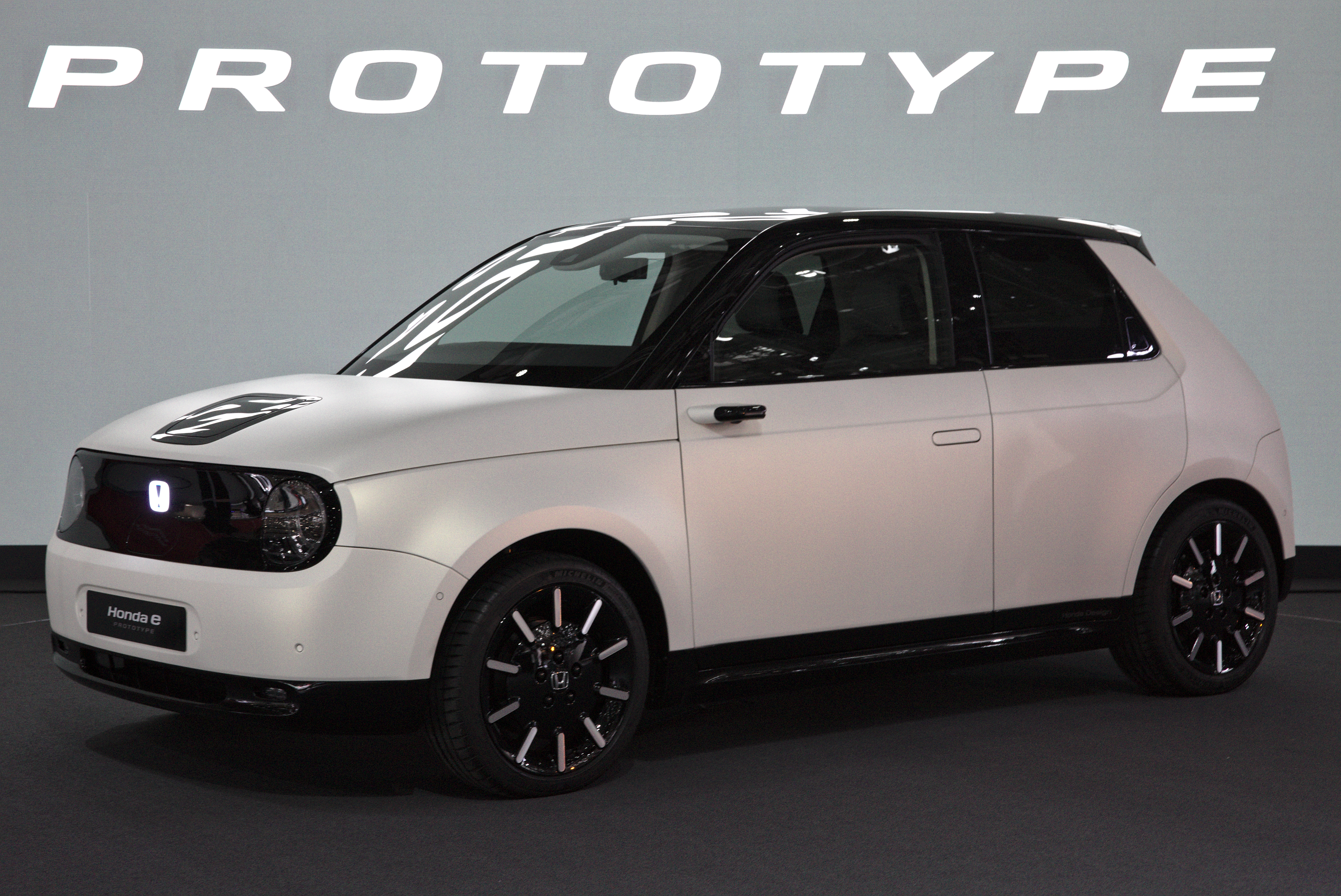 Honda e Prototype at Geneva Motor Show 2019